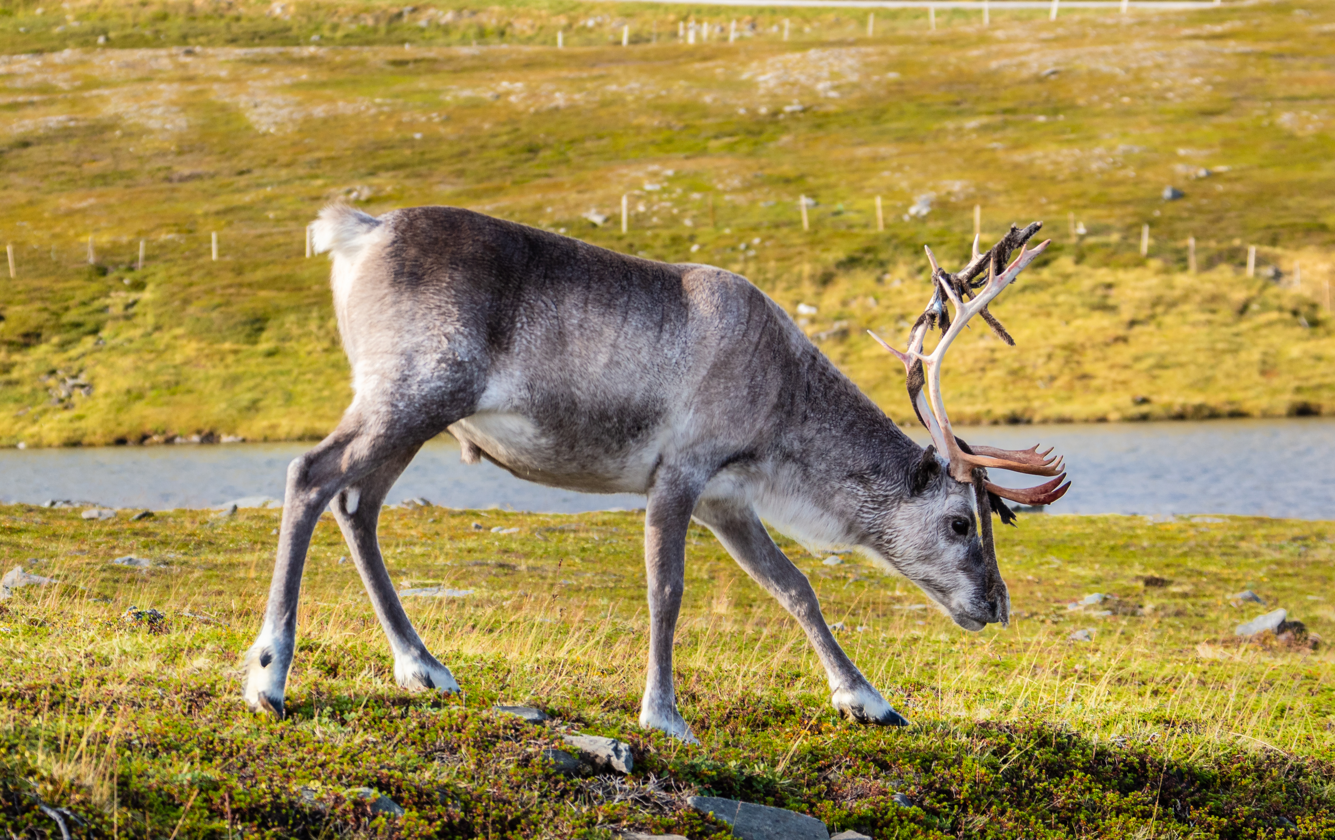 Caribou (Rangifer tarandus), Honningsvåg, Norway